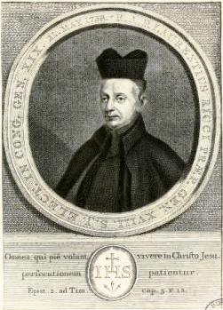 Lorenzo Ricci, S.J.